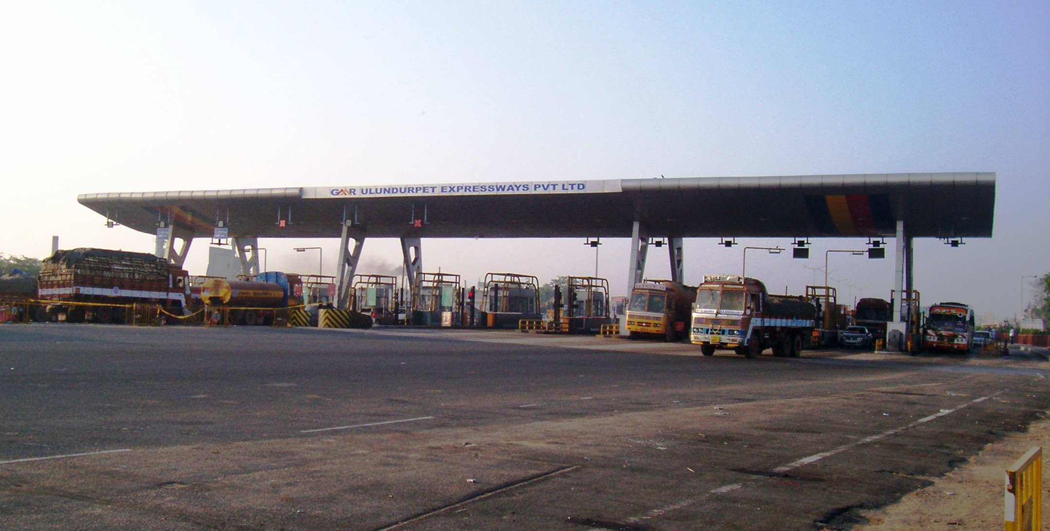 Toll Plaza on the GMR Ulundurpet Expressway.